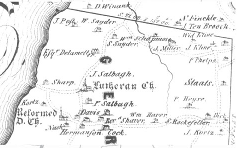 1798 map of what is today Germantown, NY, USA, showing location of, among other things, the still-extant German Sanctity Reformed Church Parsonage